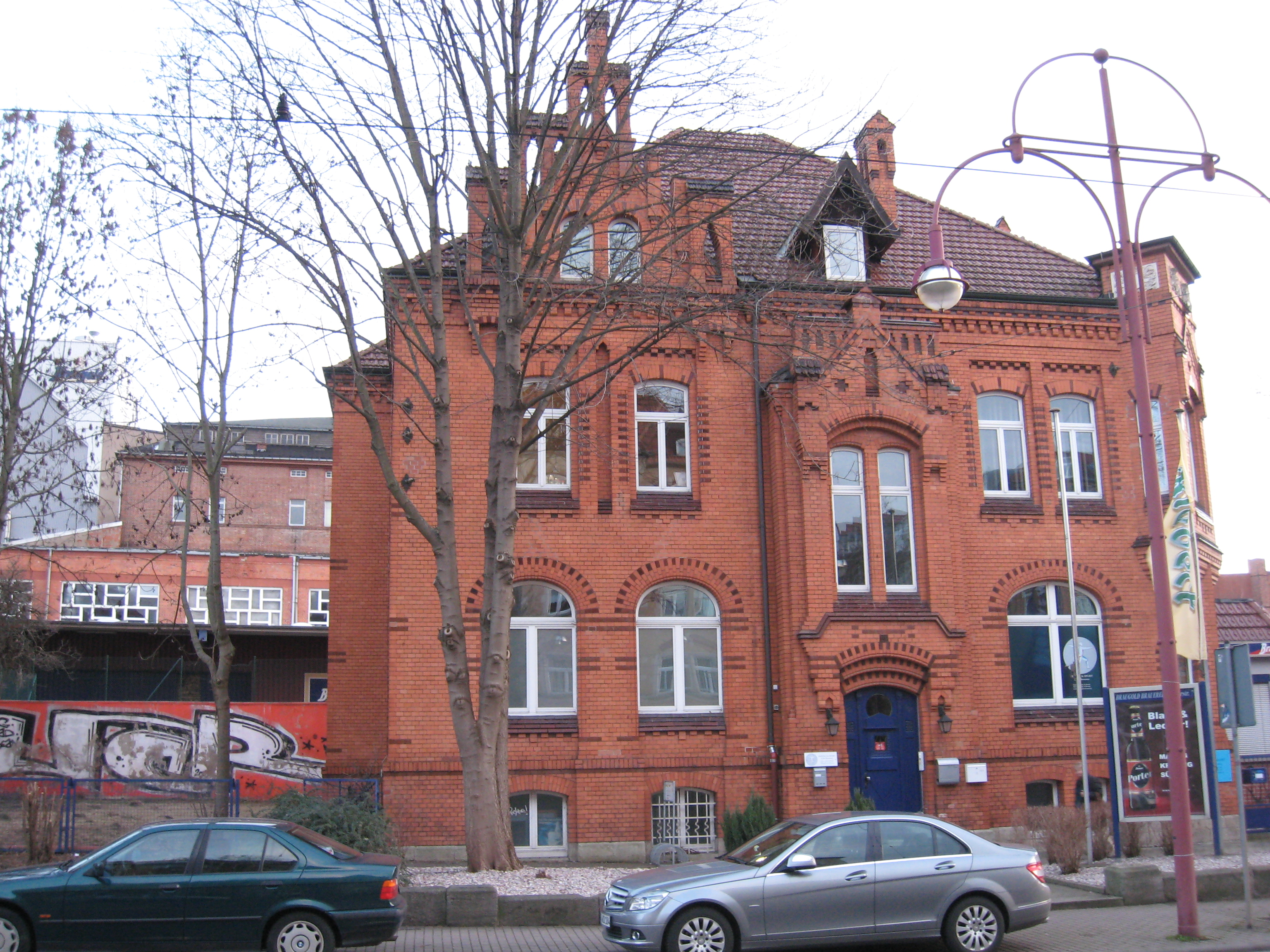 Former brewery Braugold Erfurt, Schillerstrasse 7